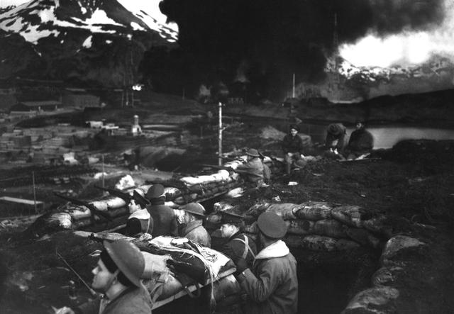 A group of U.S. Marines on the "alert" during the Japanese attack on Dutch Harbor, Alaska (USA), 3 June 1942. Smoke from burning fuel tanks can be seen in the background.